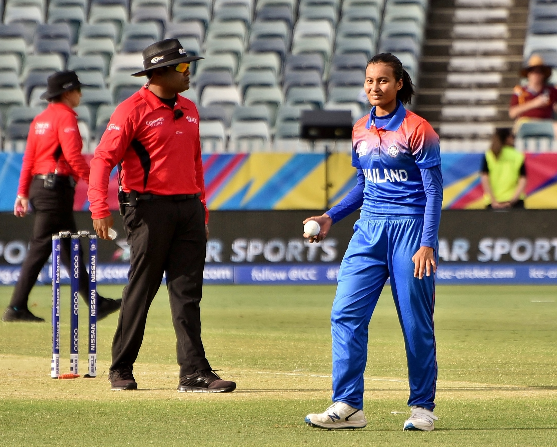 Soraya Lateh returning to her mark while bowling for Thailand against the West Indies during their 2020 ICC Women's T20 World Cup match at the WACA Ground in Perth, Australia